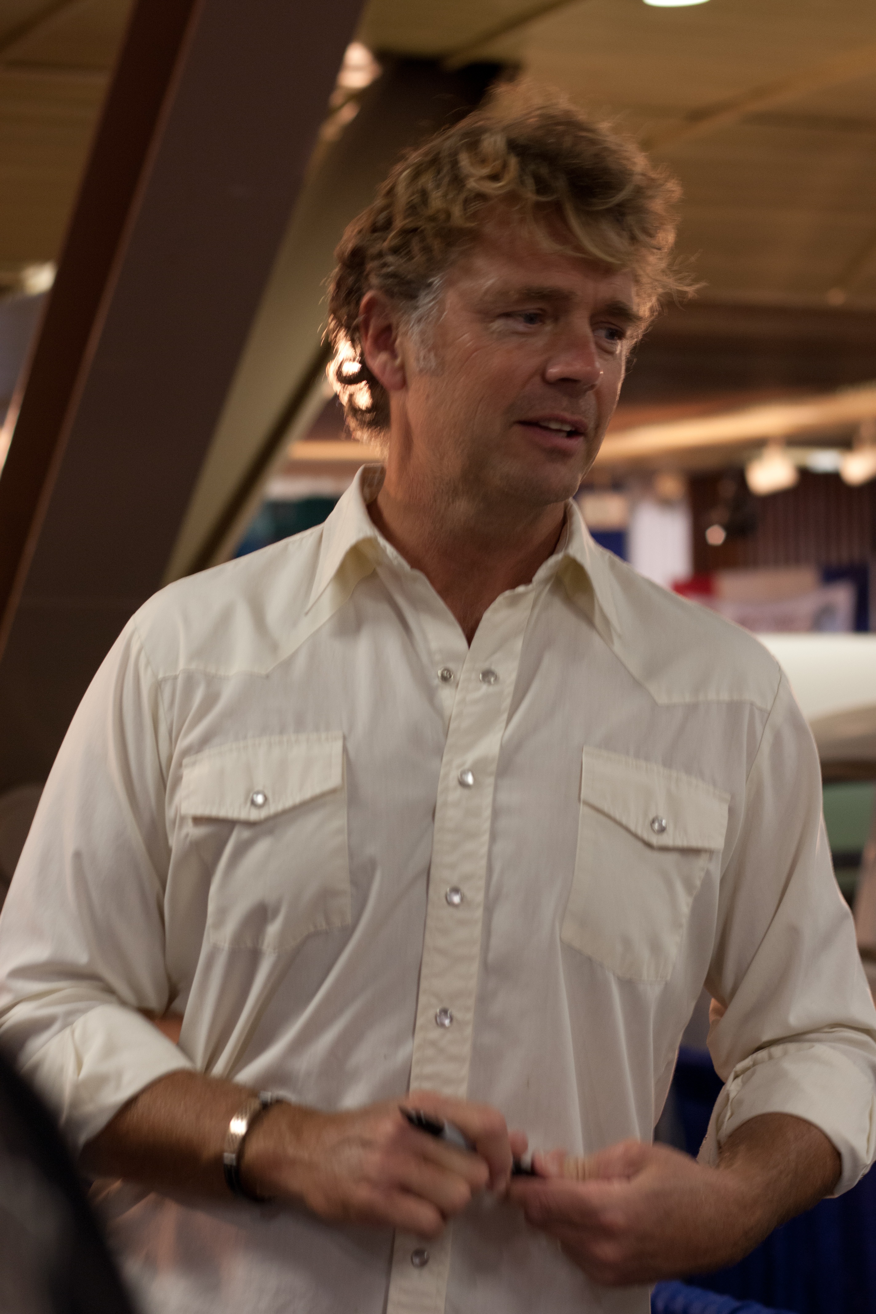 John Schneider at the 2010 Sacramento Autorama.